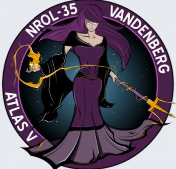 Mission Patch for NROL-35